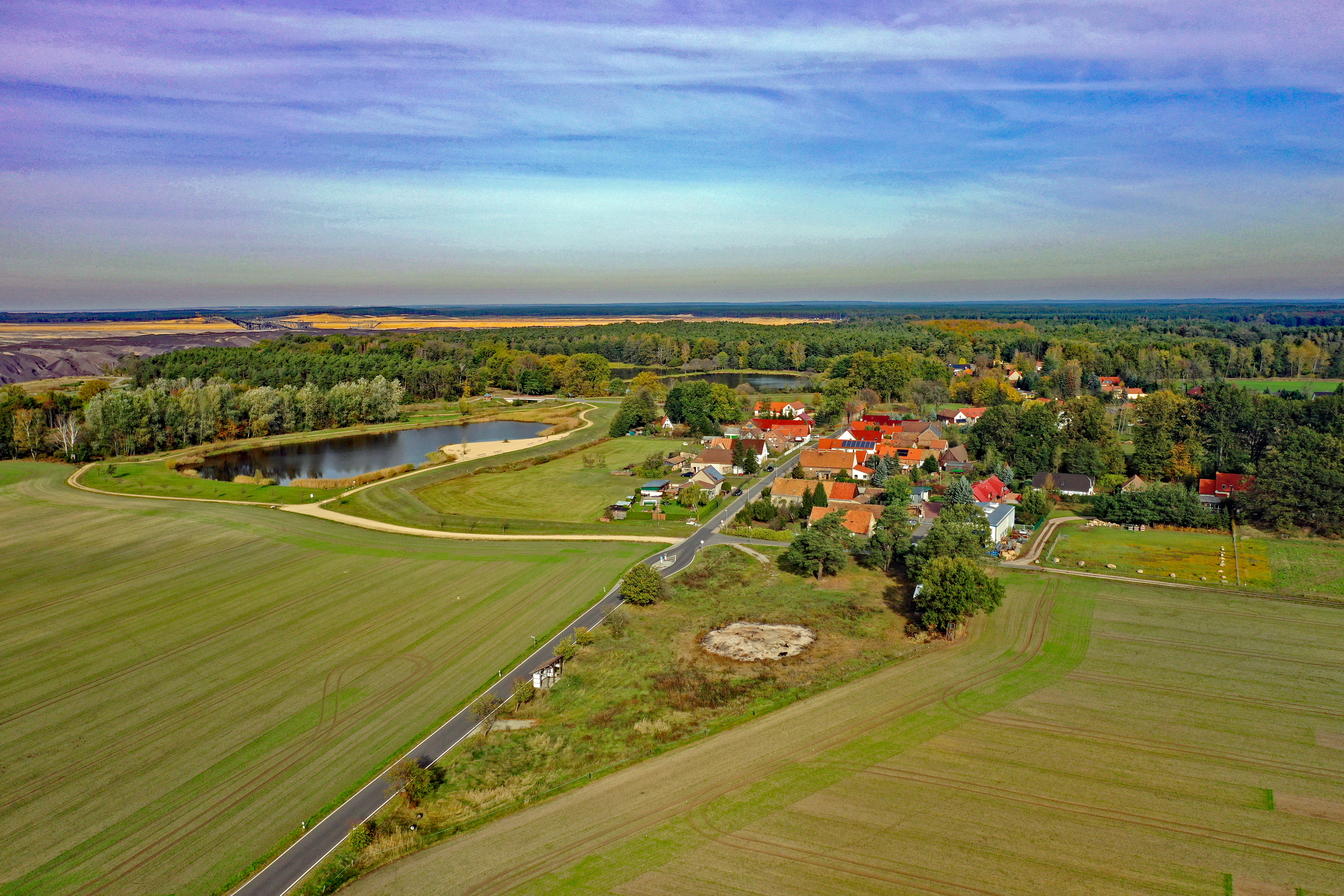 Hammerstadt (Rietschen, Landkreis Görlitz, Saxony, Germany) Hornjoserbsce: Powětrowy wobraz Hamoršća pola Rěčic